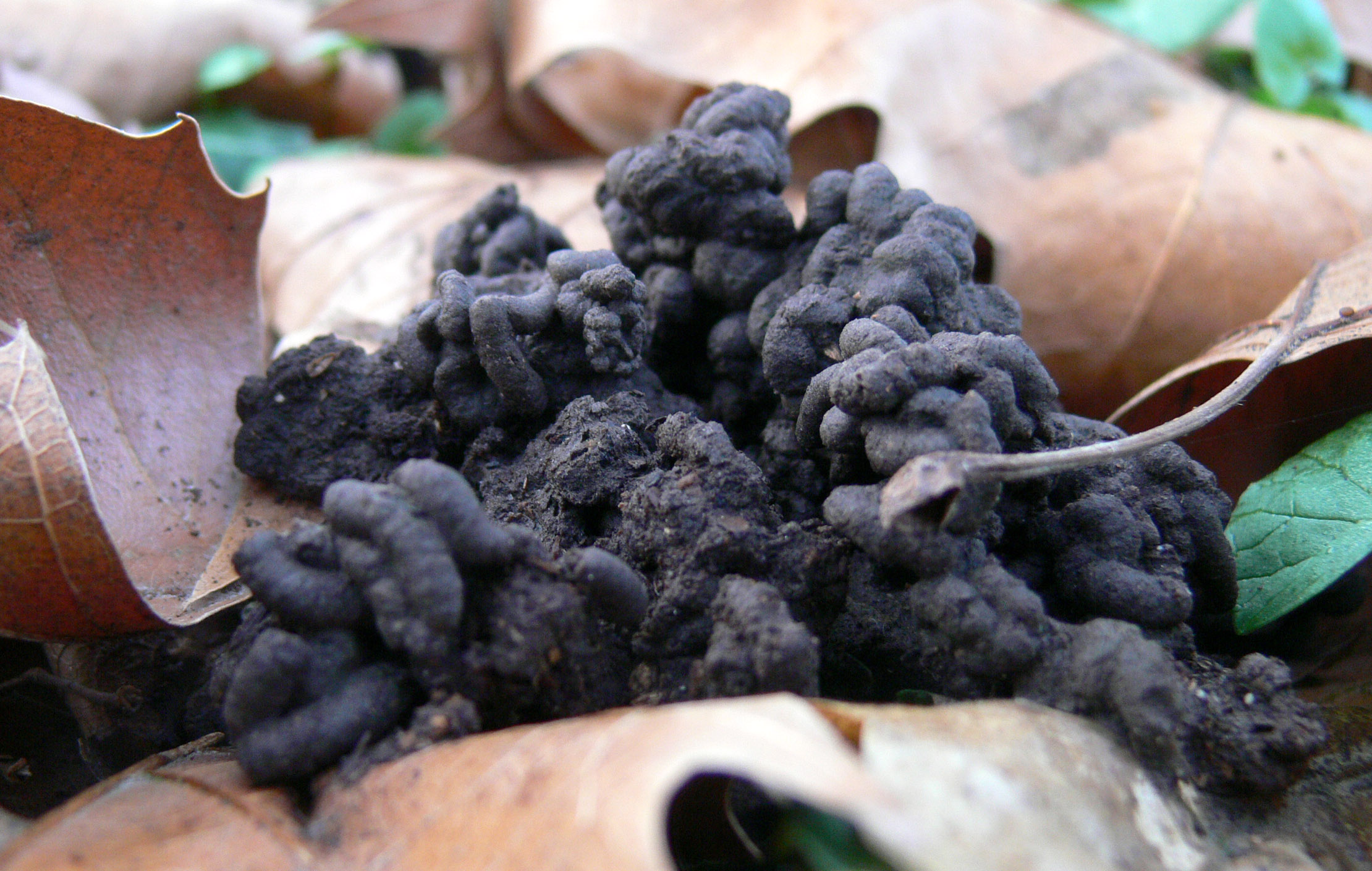 Platanus litter and earthworm work